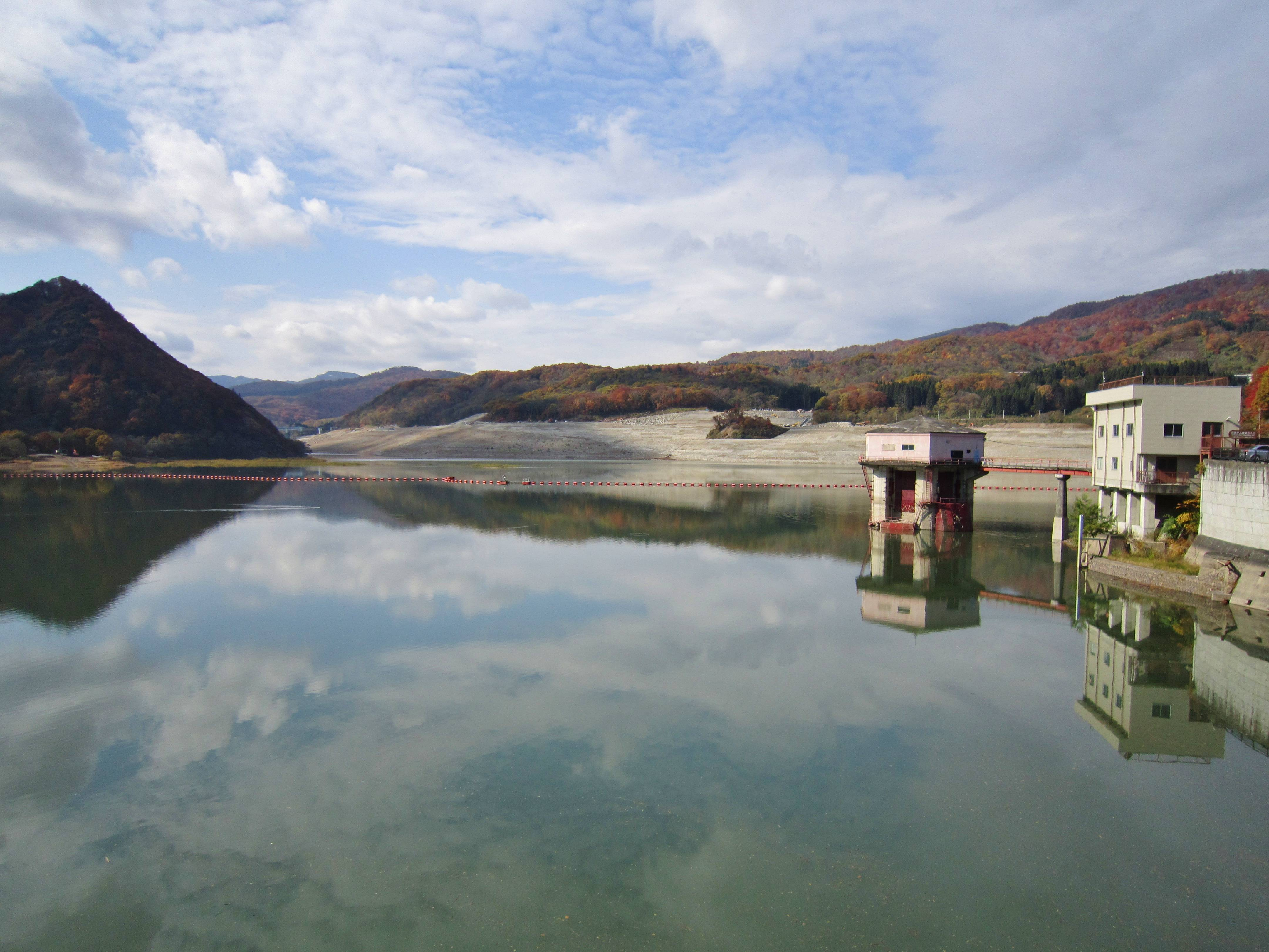 Ishibuchi Dam lake.